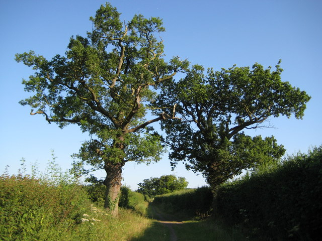 Shenley: Watling Chase Timberland Trail Watling Chase Timberland Trail is a defined National Trail, currently running for about 17 kilometres from Elstree & Borehamwood railway station via Shenley, London Colney, and Colney Heath to Smallford near Hatfield (and some distance from another railway station). It is only currently shown on the Ordnance Survey's 1:25,000 Explorer maps not the 1:50,000 Landranger ones. On top of that the Ordnance Survey describe it as "Watling Chase Trail" on the map and a current Google search on that term confusingly yields a mere 6 hits, compared to the 152 for the full name. Whatever, here are two fine oak trees on either side of the trail between Shenley and London Colney.